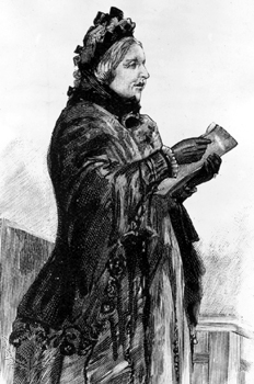 Octavia Hill (1838–1912)